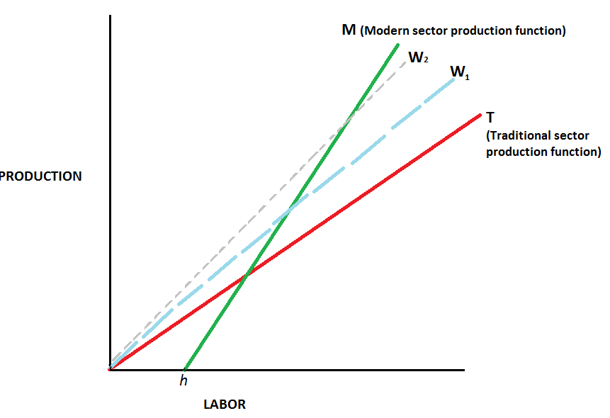 production fns